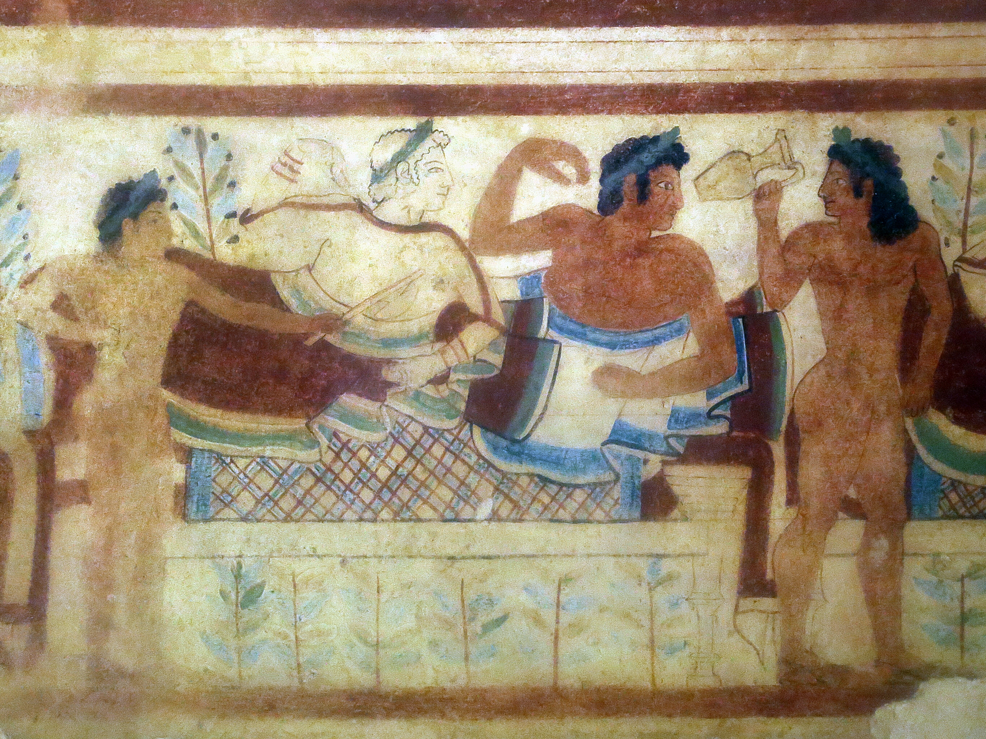 Necropoli dei Monterozzi (Tarquinia), Tomba die leopoardi